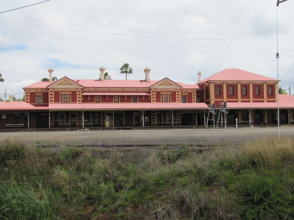 Toowoomba Railway Station from E (2012)